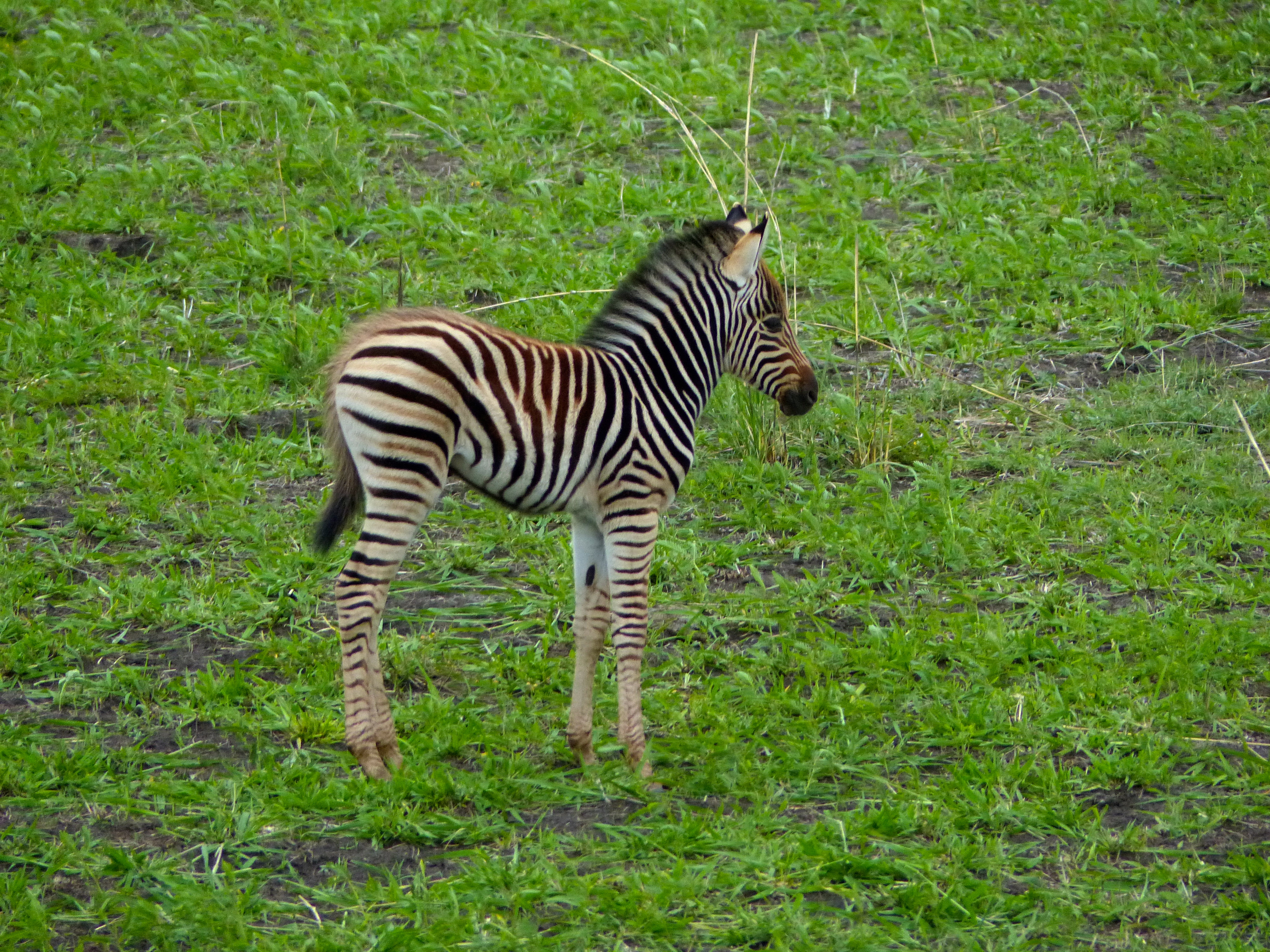 Malopenyana Waterhole, North of Letaba, Kruger NP, SOUTH AFRICA